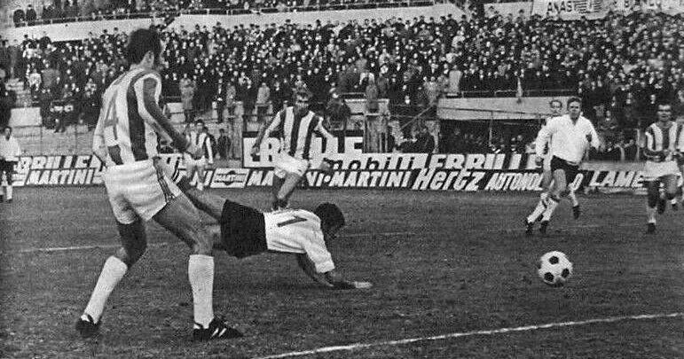 Turin (Italy), Communal Stadium, November 26, 1969. An header of Juventus' utility player Antonello Cuccureddu (no. 11) in the match between Juventus F.C. and Hertha B.S.C. (0-0), 2nd leg of 1969–70 Inter-Cities Fairs Cup, 2nd round.